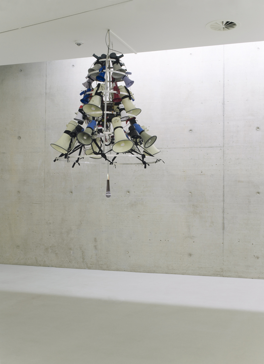 40 megaphones of different sizes and capacities are fixed to an aluminum grid made in the shape of a bell. All audio inputs are grouped together and connected to one single microphone. The microphone is hanging in the center of the bell just below the megaphones. Only a temporary de-energized system prevents the inevitable audio feedback. As soon as the visitors disturb the microphone from its suspended state, the audio system automatically starts up and the deafening roar of a 40-megaphone chorus of amplified feedback collapses on the bell-ringer.